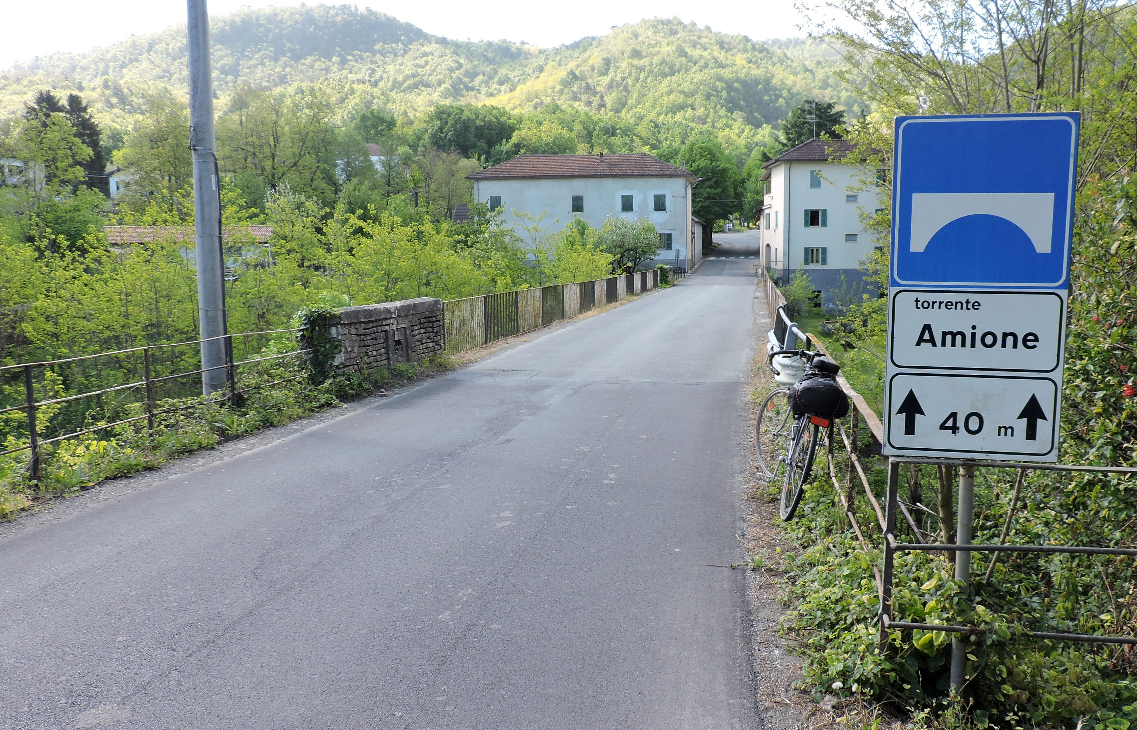 Bridge on the Amione (AL, Italy)